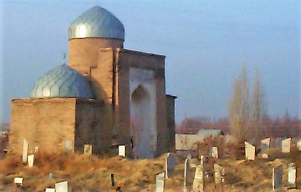 This is a photograph that I (Michael Hancock) took of the Abd al-Aziz baba mausoleum that stands in one of the cemeteries in Sayram, Kazakhstan. This particular mausoleum is notable for its three domes. The mausoleum has been rebuilt several times over its history.